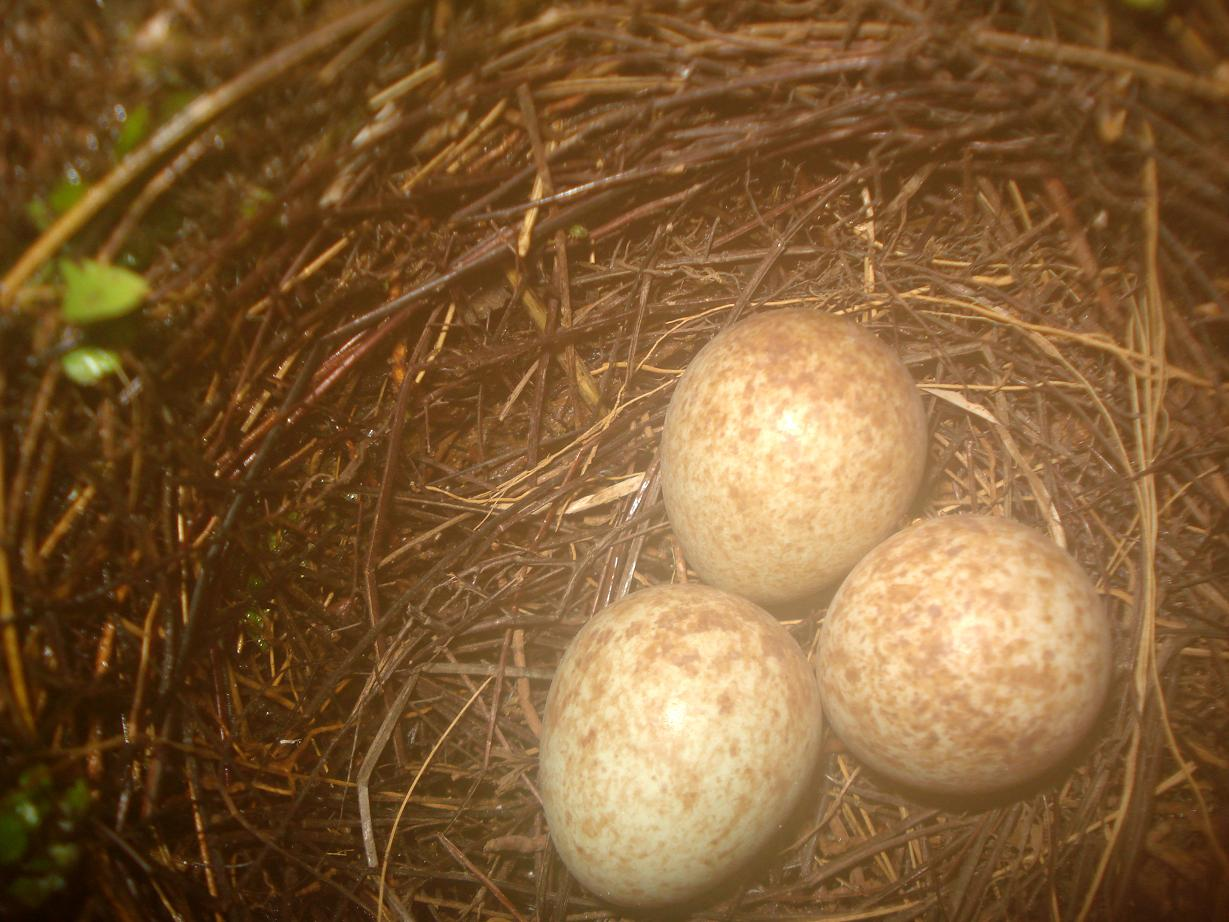 Whitethroated ground thrush Family : Turdidae Name : Zoothera ctrina cyanotus